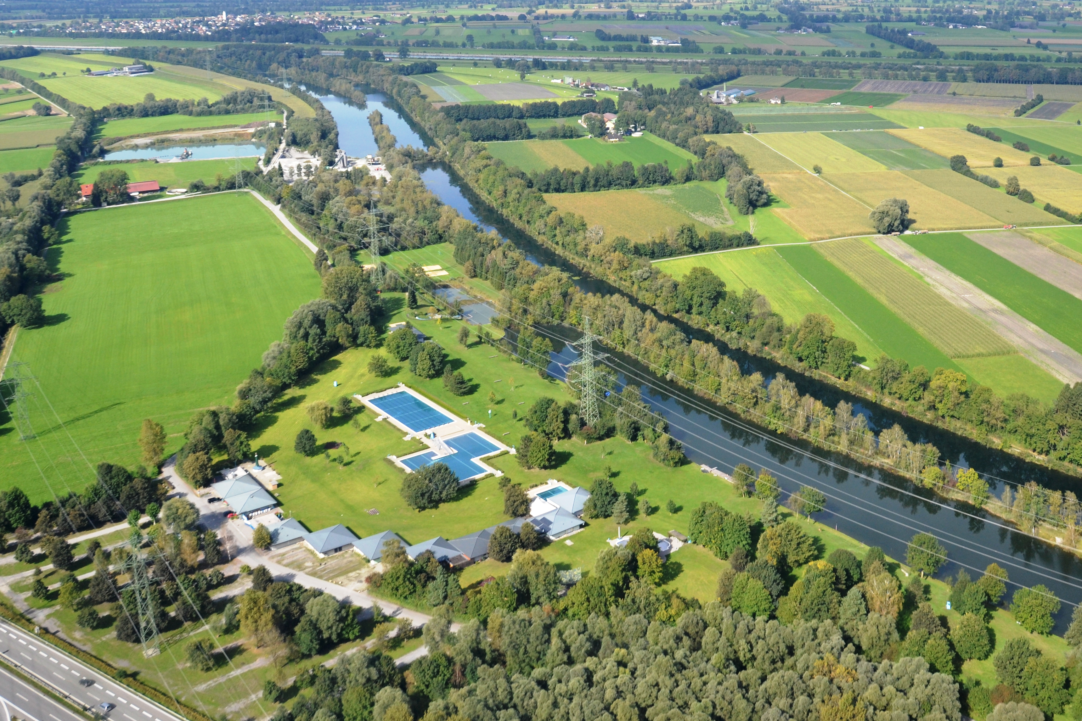 The Rheinauen recreation center is one of the largest public open air pools in western Austria. It is situated within the municipality borders of the city of Hohenems in the state of Vorarlberg, directly at the border to Switzerland. Aerial view from the east.